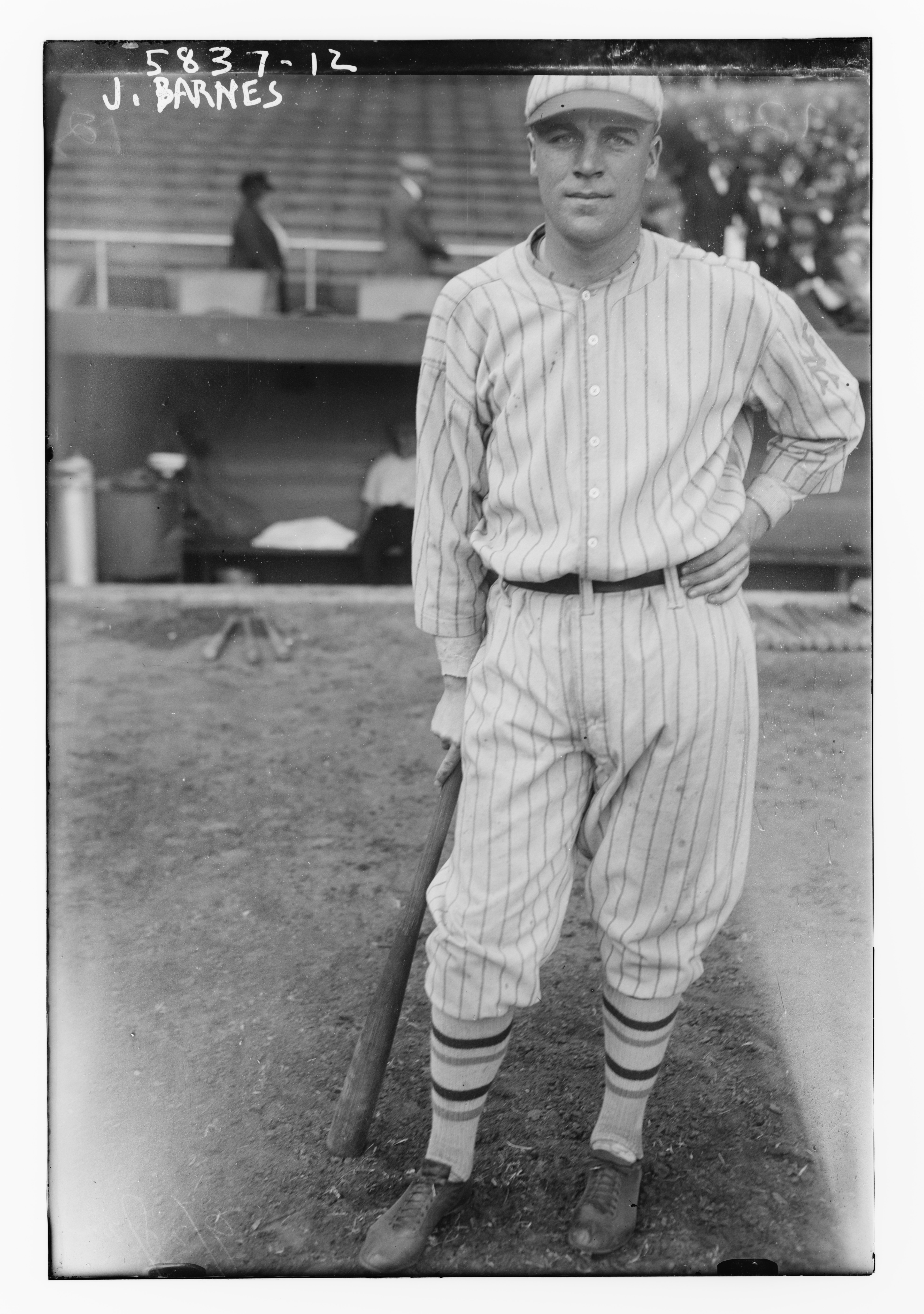 Title: Wilfred "Rosy" Ryan, New York NL (baseball) Abstract/medium: 1 negative : glass ; 5 x 7 in. or smaller.